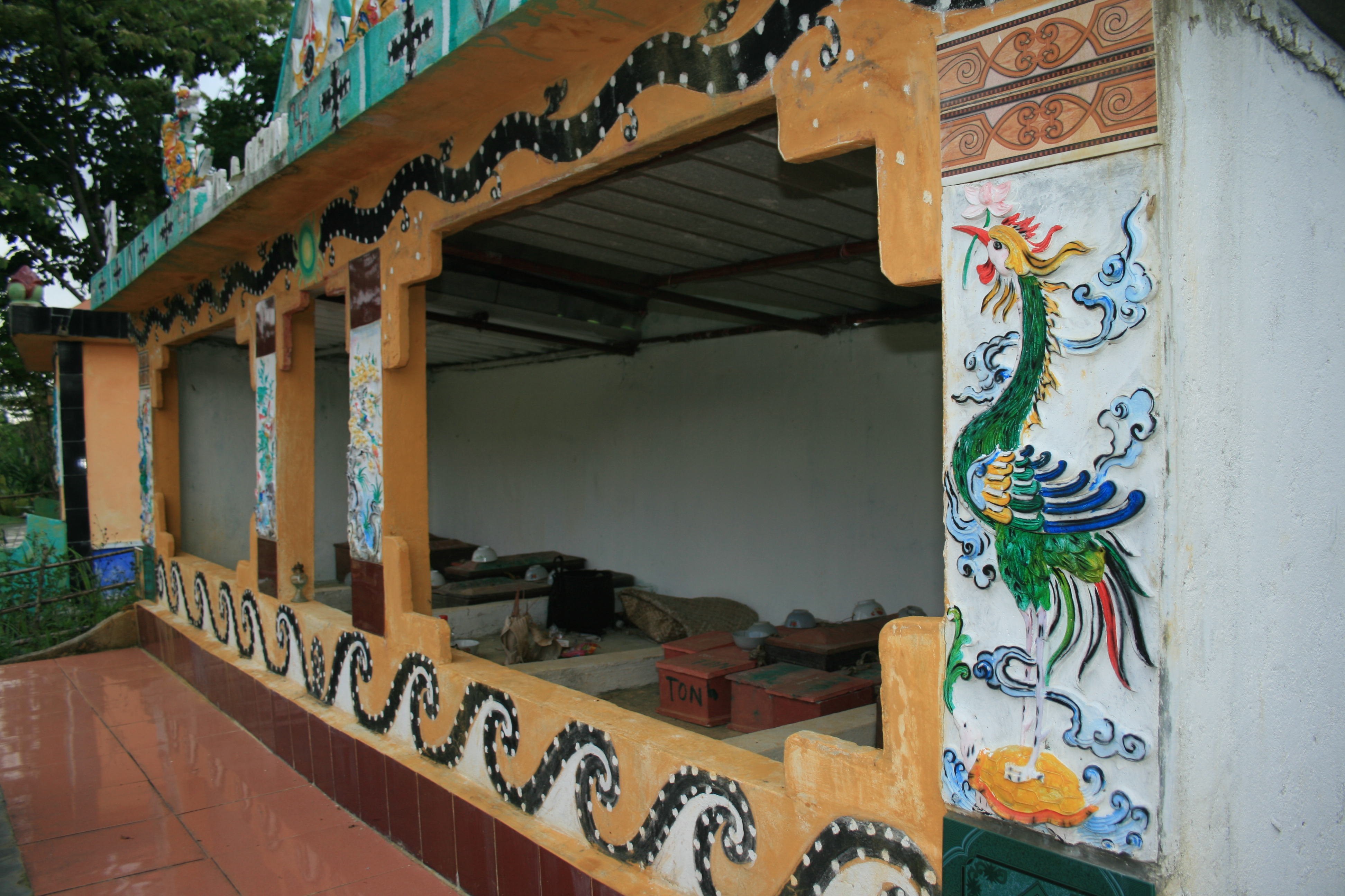 Tombs of Ta Oi people, A Luoi district, Thua Thien-Hue Province, Vietnam